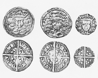 Image of O'Reilly's Money